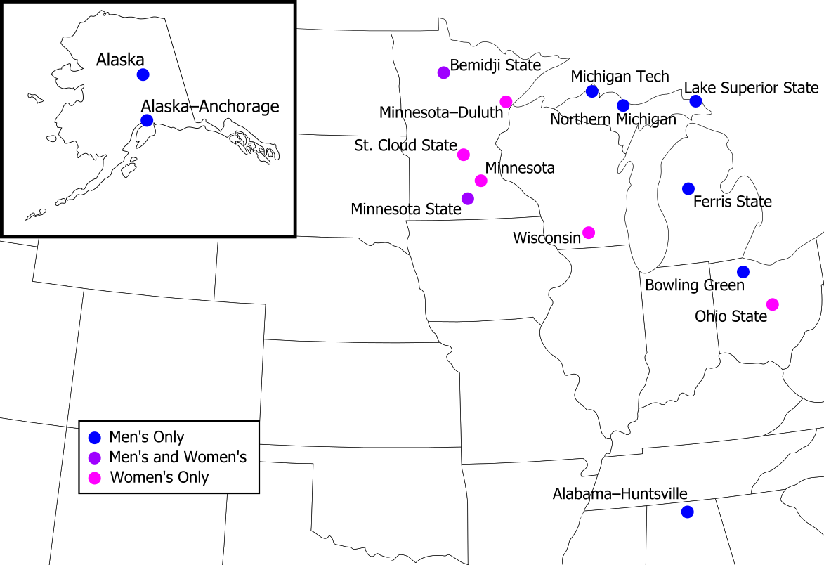 Map of teams in the Western Collegiate Hockey Association